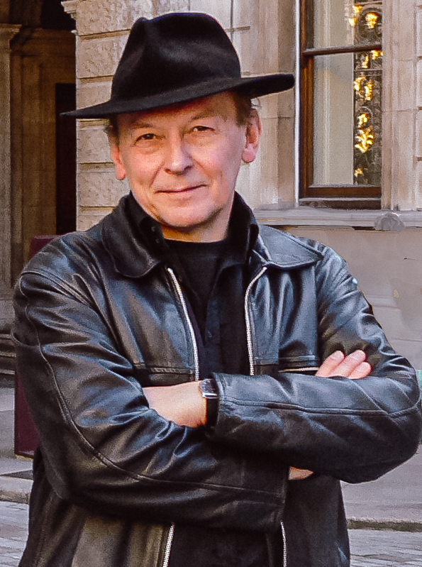 Roland Steiner (Regisseur), 2007